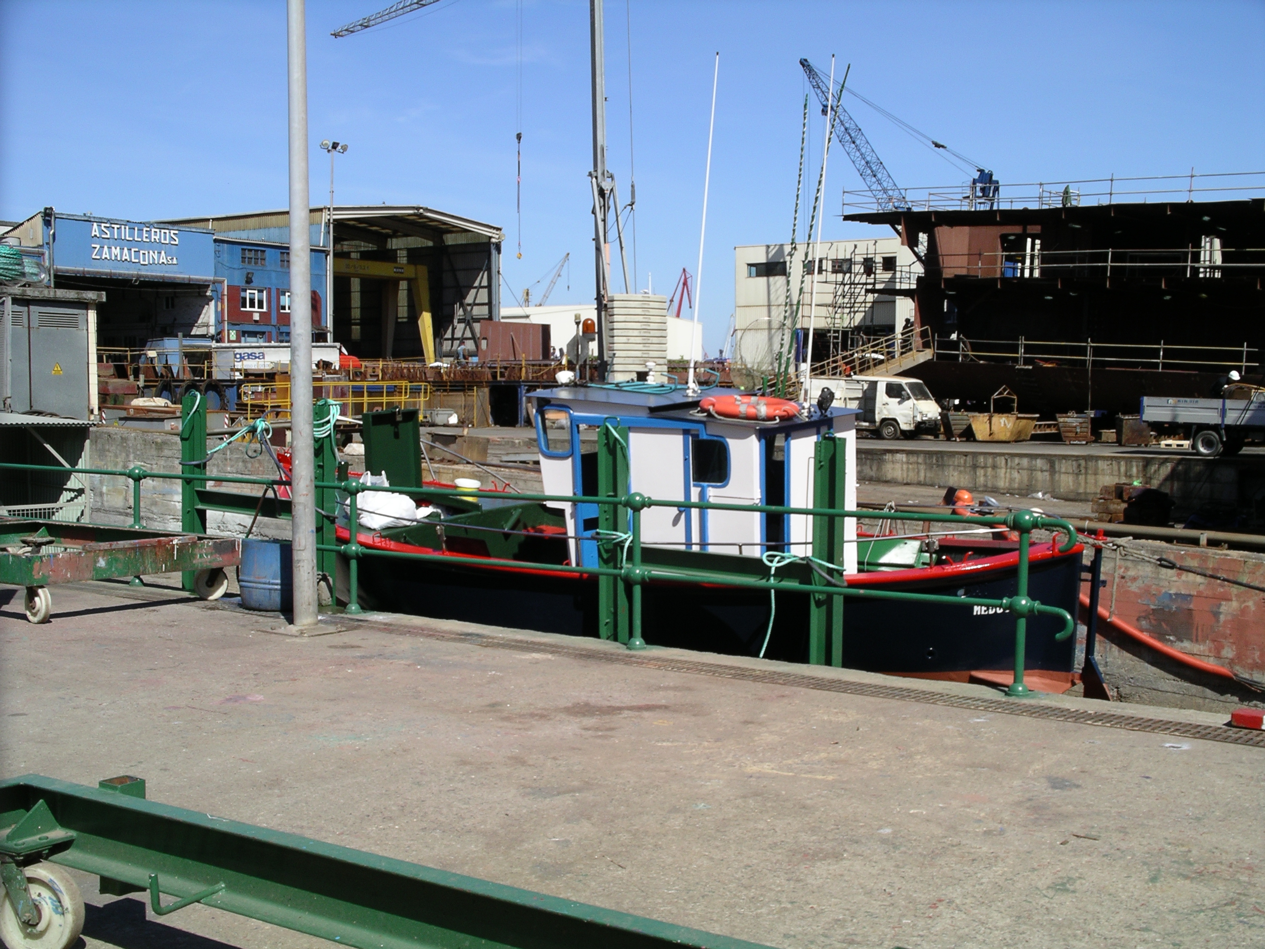 Zamacona yards, Santurtzi, Biscay, Basque Country.